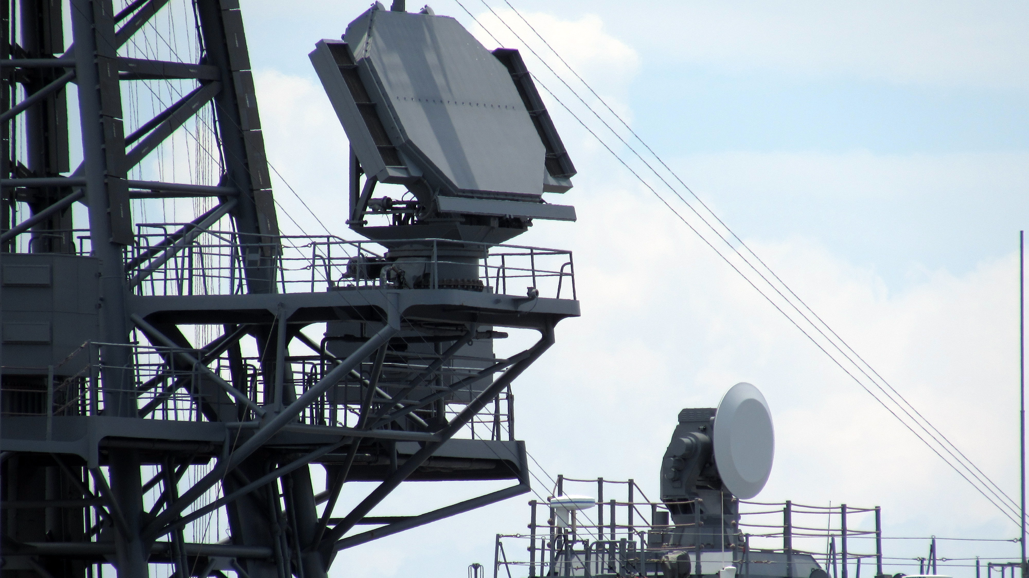 The OPS-24 Active Electronically Scanned Array (AESA) Air Search Radar (ASR) and a Separate Tracking and Illumination Rardar (STIR) of the JS Yudachi (DD-103), a Murasame class Destroyer of the Japanese Maritime Self Defence Force (JMSDF). Photo taken at the Manila South Harbor.